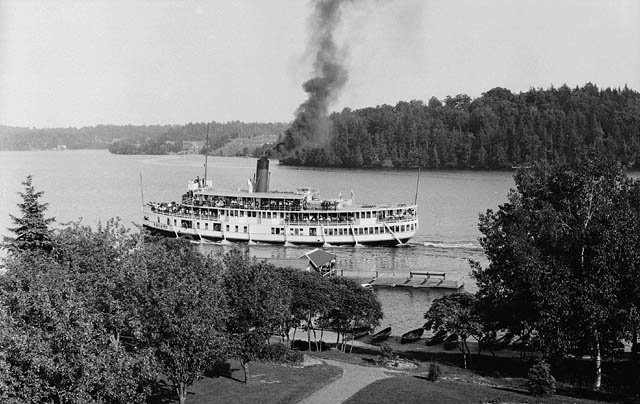 Photograph of the SS Sagamo leaving Elgin House on Lake Joseph, Muskoka Lakes, Canada circa 1907.